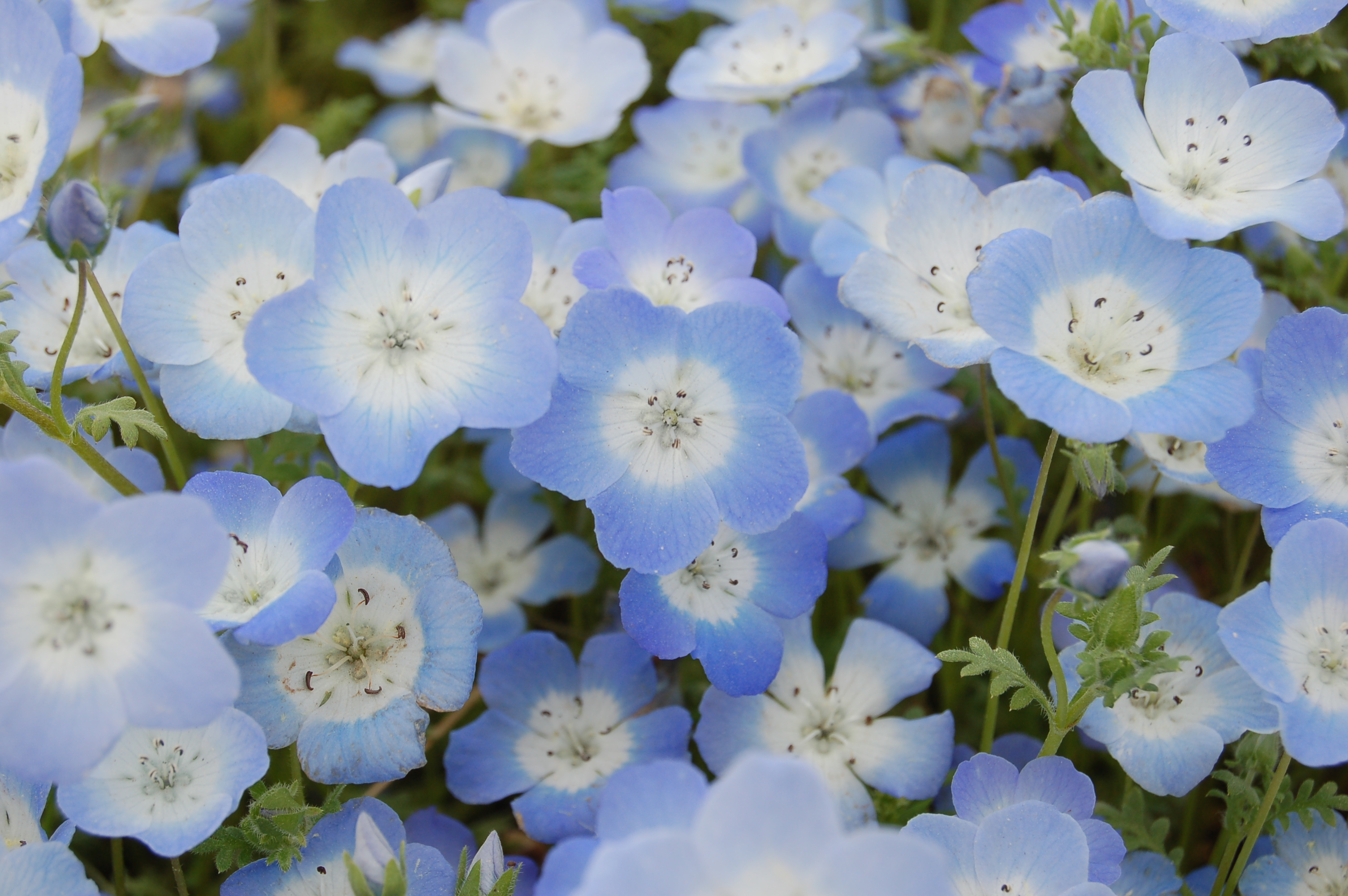 Nemophila at Hitachi Seaside Park, Hitachinaka, Ibaraki, Japan